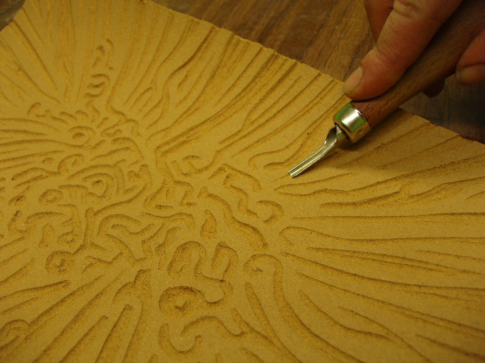 Making a linocut. Kose Art School.